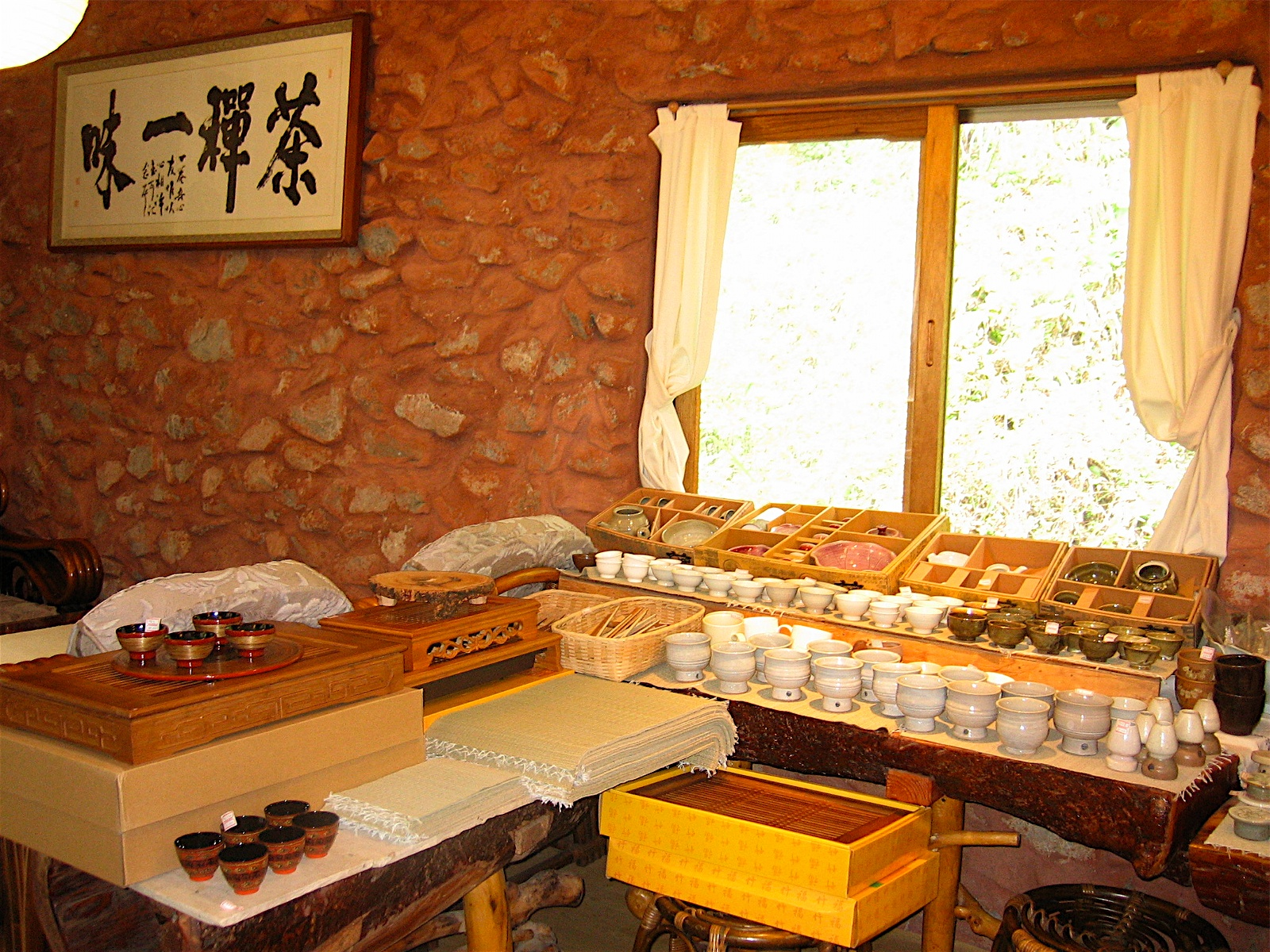 Golgulsa in Mount Hamwol Gyeongju, Gyeongsangbuk-do, South Korea.